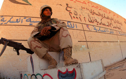 Lance Corporal John A. Marcogliese stands guard at one of several Olympic stadiums in Baghdad, Iraq. The 1st Marine Division established a forward command post inside at least one arena. Marcogliese and other Marines scribbled a new tally on the Iraqi scoreboard behind him. "U.S.: 2, Saddam: 0." U.S. Marine photo by Sergeant Joseph R. Chenelly.